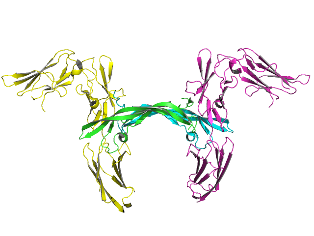 Ribbon image of human PDGF receptor beta in complex with PDGF-B. This image was created using Pymol, based on 3MJG in the Protein Data Bank.